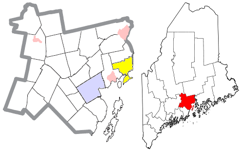 Map of the divisions of Waldo County, Maine, United States, with the town of Stockton Springs highlighted in yellow. The city of Belfast is light blue; other towns are white; and pink areas are census-designated places within towns.